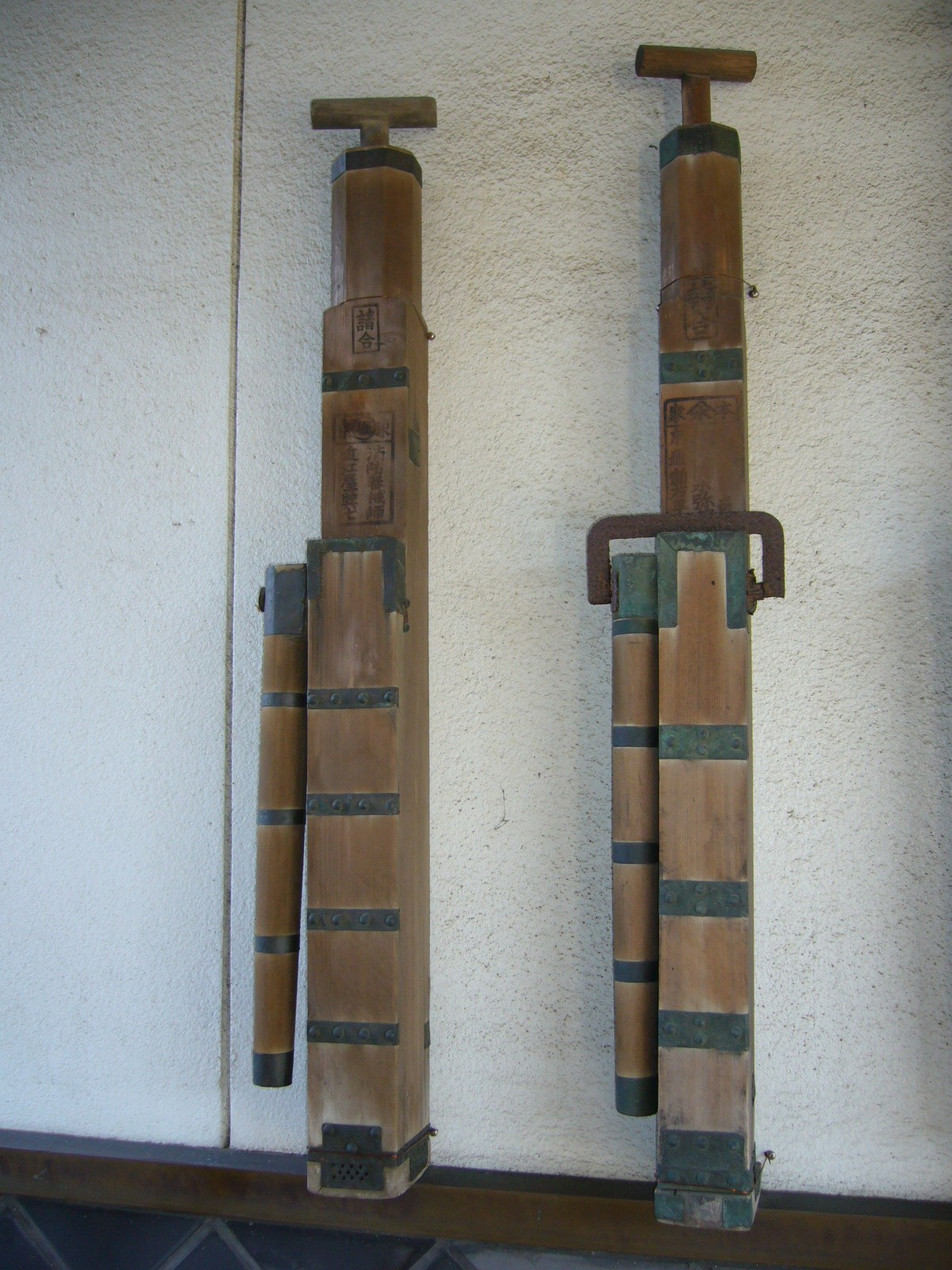 Spray water gun, or Mizu-teppō, as old Japanese hand-operationed fire apparatus. - in Katori city, Japan.